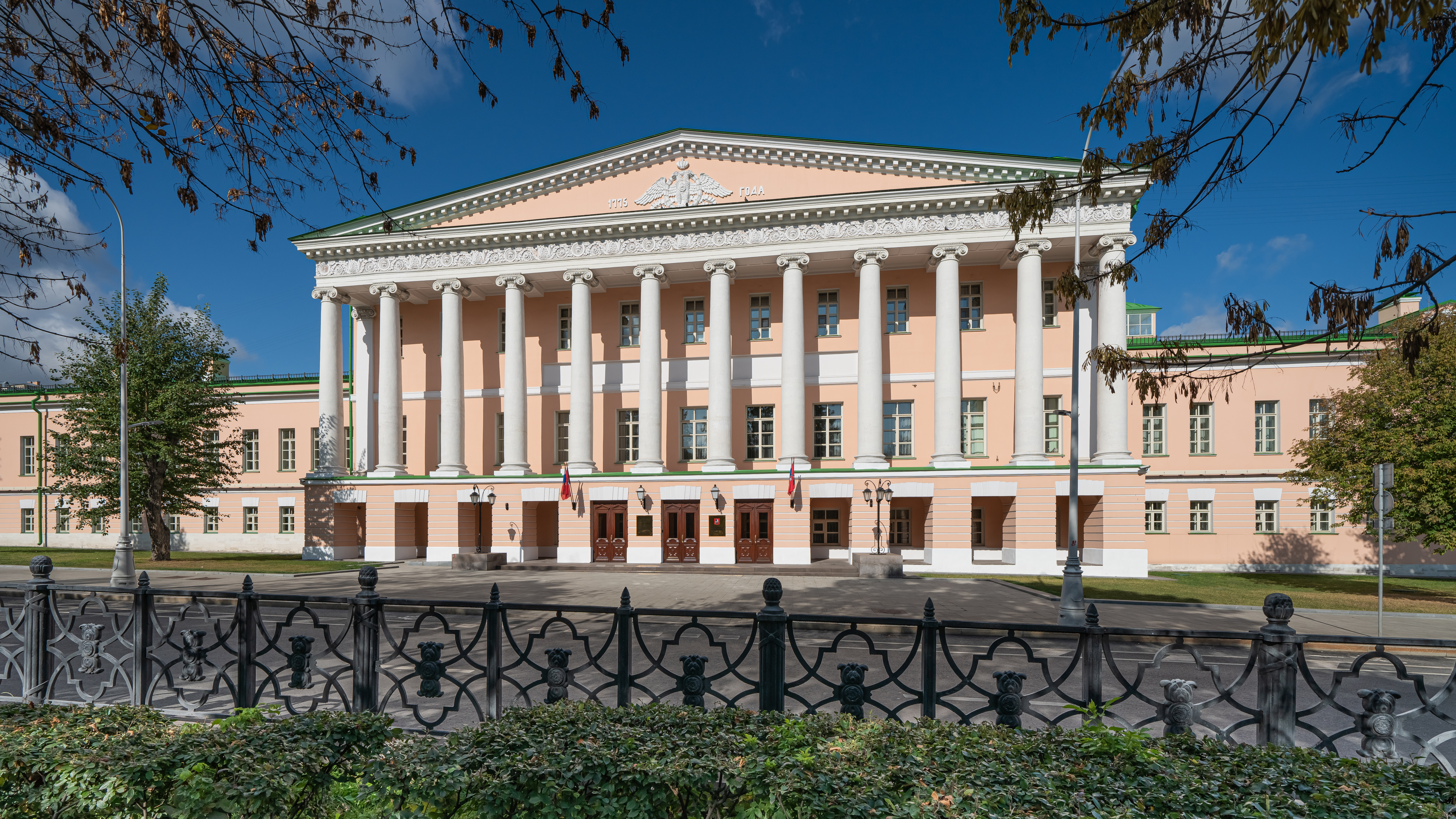 Former New Catherine Hospital in Moscow, Russia